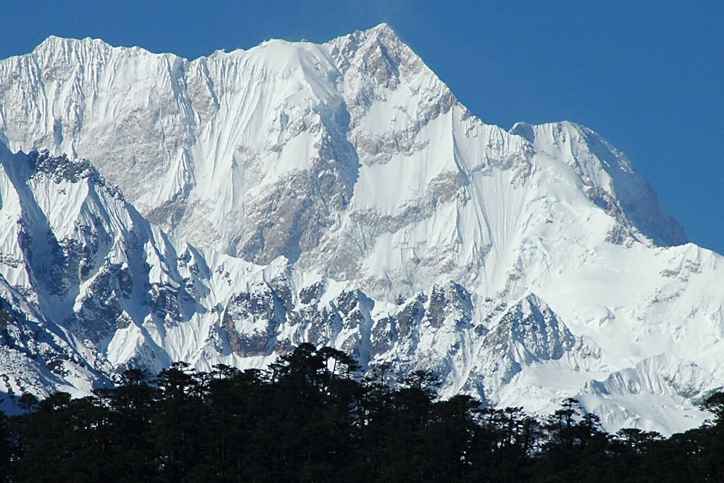 The rarely visited east face of Kangchenjunga, as seen from Thalem just below the Zemu glacier in Sikkim.